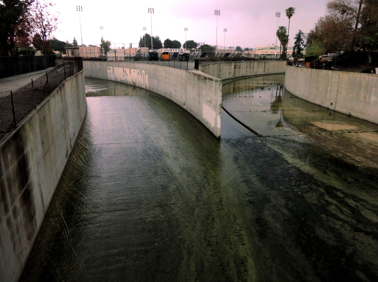 Los Angeles River origin at the confluence of Bell Creek and Arroyo Calabasas.